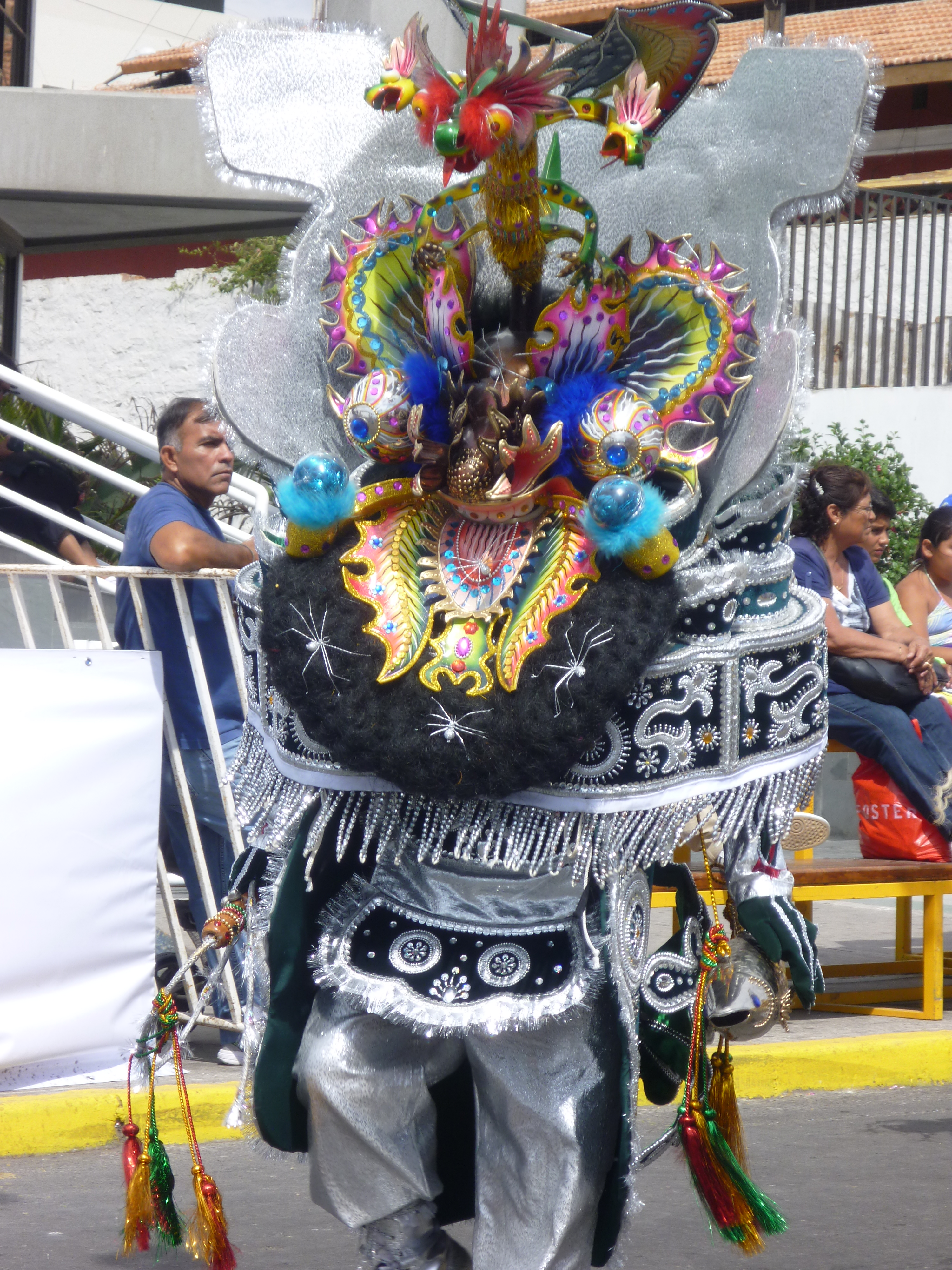 Carnaval Andino con la Fuerza del Sol Inti Ch'amampi 2012 Arica, Chile